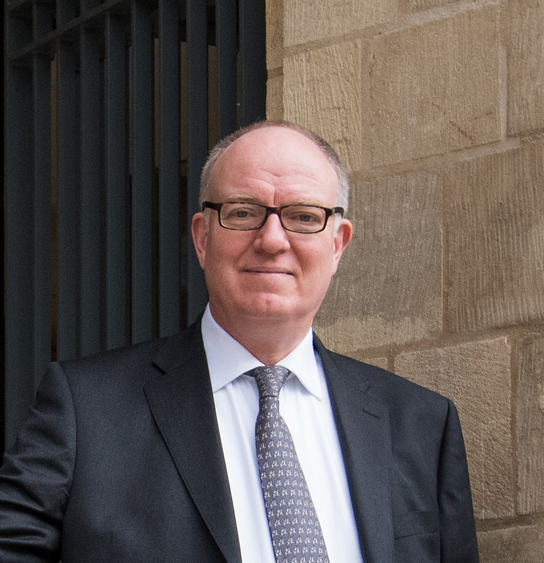 Richard Ovenden, Bodley's Librarian, photographed at the opening of the Weston Library in 2015.